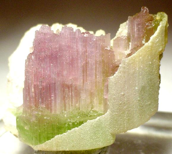 Tourmaline, Cookeite Locality: Himalaya Mine (Himalaya pegmatite; Himalaya dikes), Gem Hill, Mesa Grande District, San Diego County, California, USA (Locality at ) A highly unusual, beautiful, etched and lustrous bi-colored tourmaline with cookeite from the "Cityscape" pocket at the Himalaya Mine from the early 1980s. Not too many of these came out in this quality. Very unusual tourmaline, aside from the value of the locality. 3.4 x 2.7 x 2.3 cm